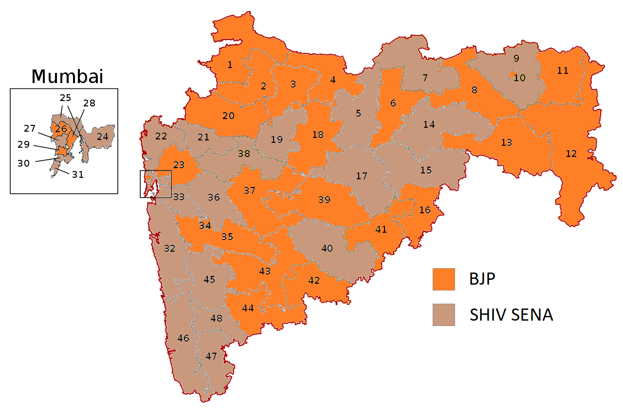 Seat Sharing between Shiv Sena and BJP in Maharashtra in 2019 Elections